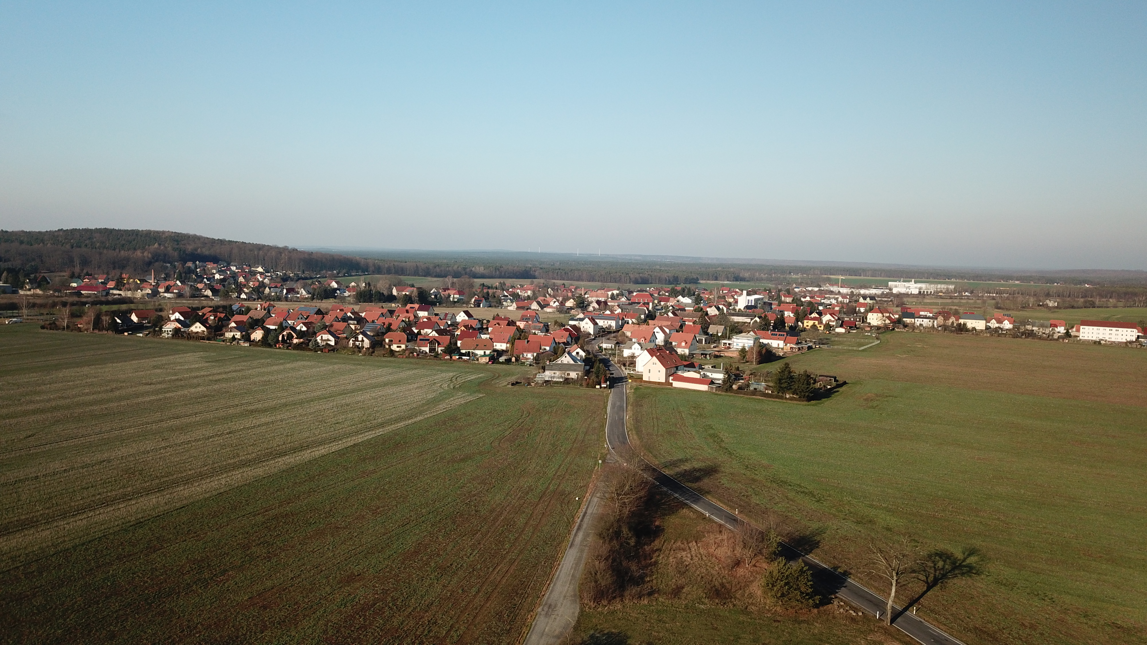 Laußnitz (Saxony, Germany)